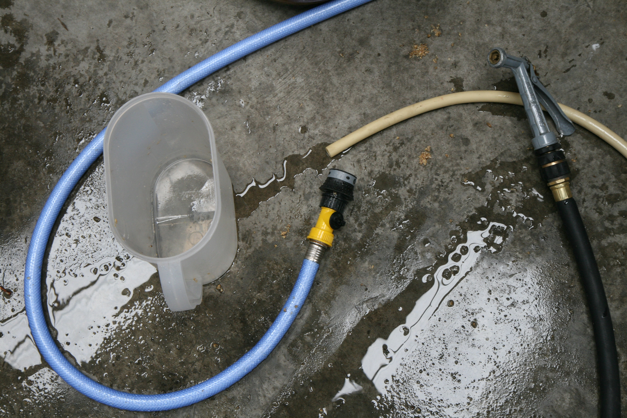 Water hoses on the floor during National Homebrew Day at Fullsteam Brewery on May 8th, 2011 in Durham, North Carolina.